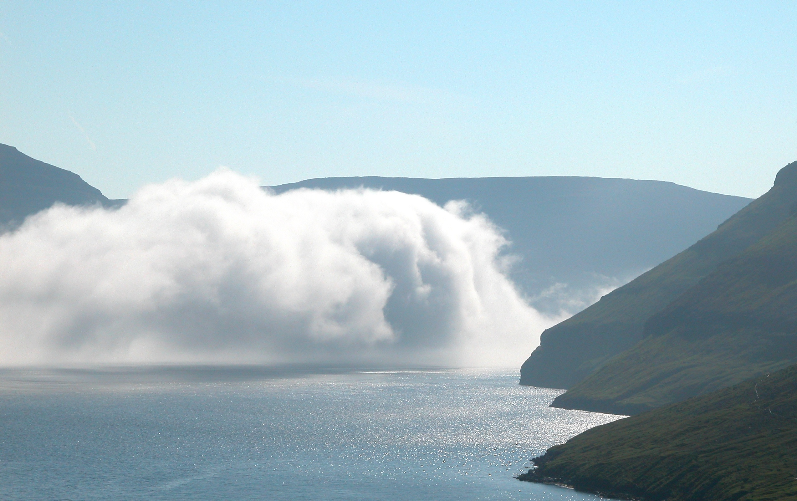 Cloud on the Hvannasund on Viðoy, Faroe Islands.